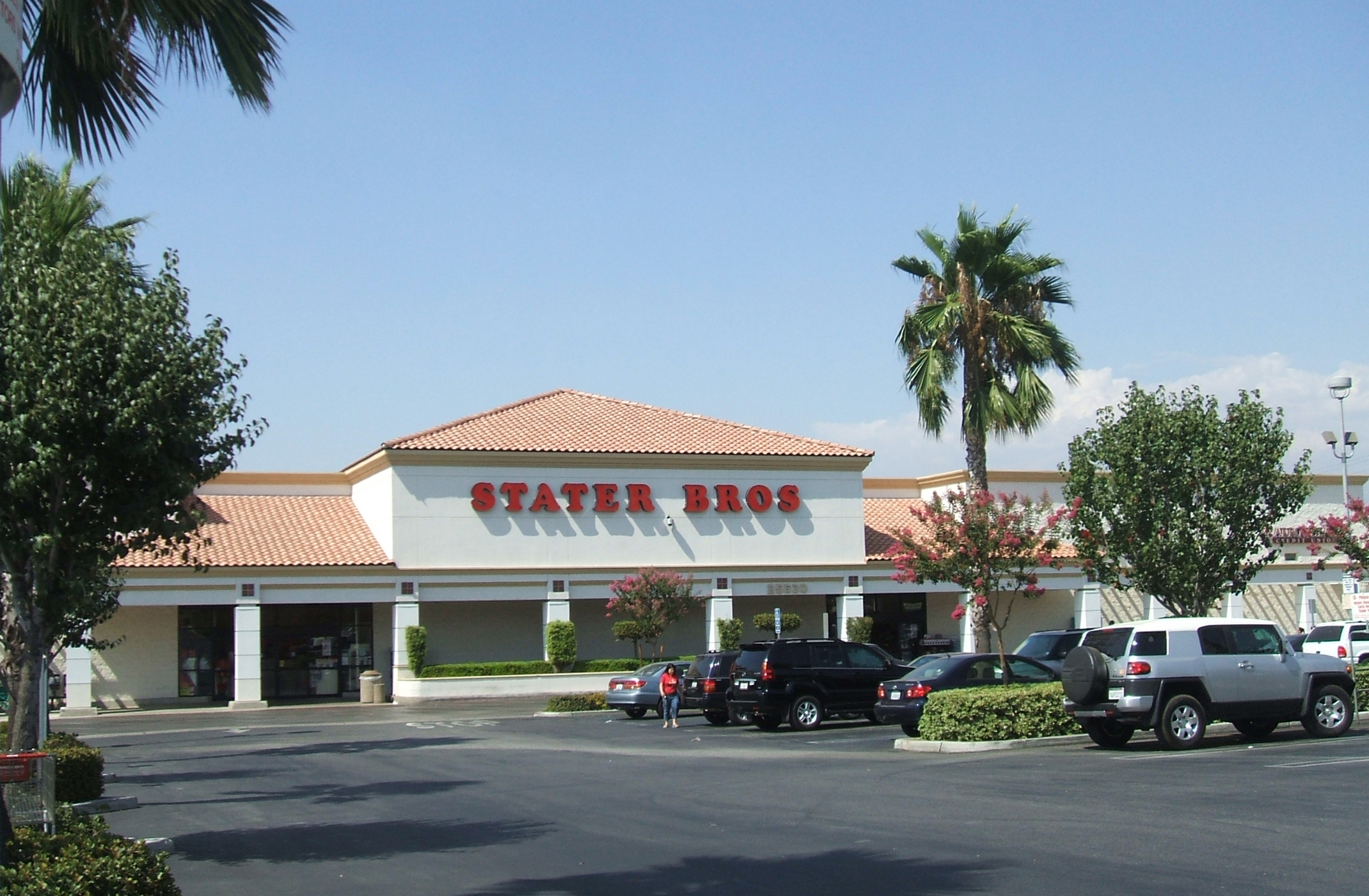 Photograph of Stater Bros. Market in Loma Linda, Calif., taken 08/03/2008 for the purpose of illustrating the article on same.